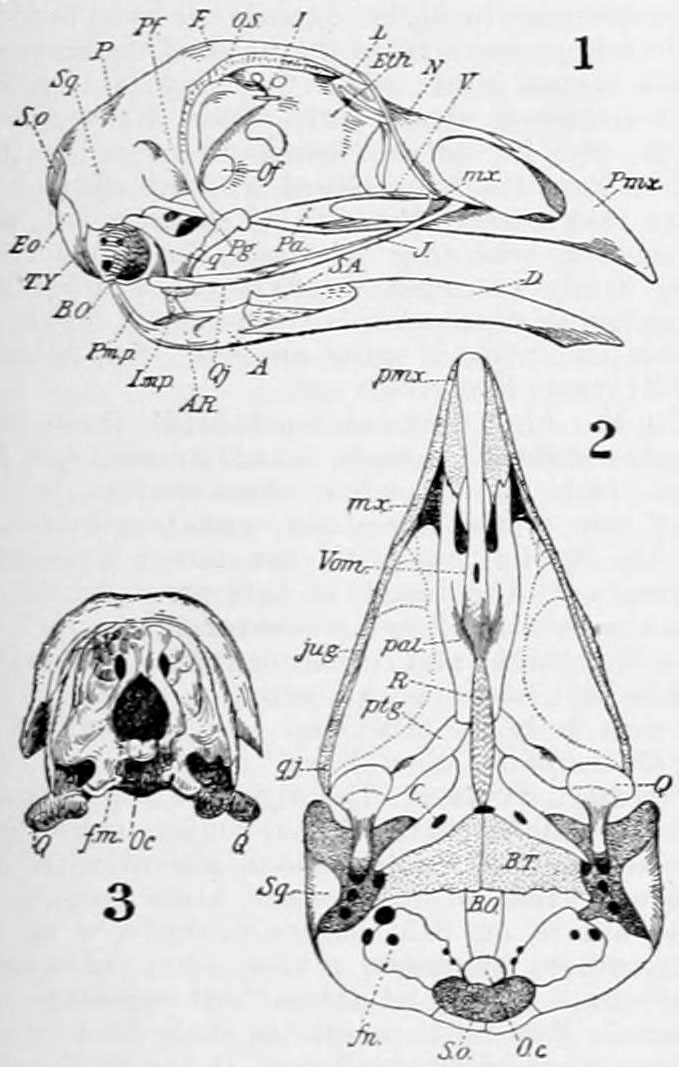 Bones of the skull of a fowl - labeled anatomical diagram in three views.